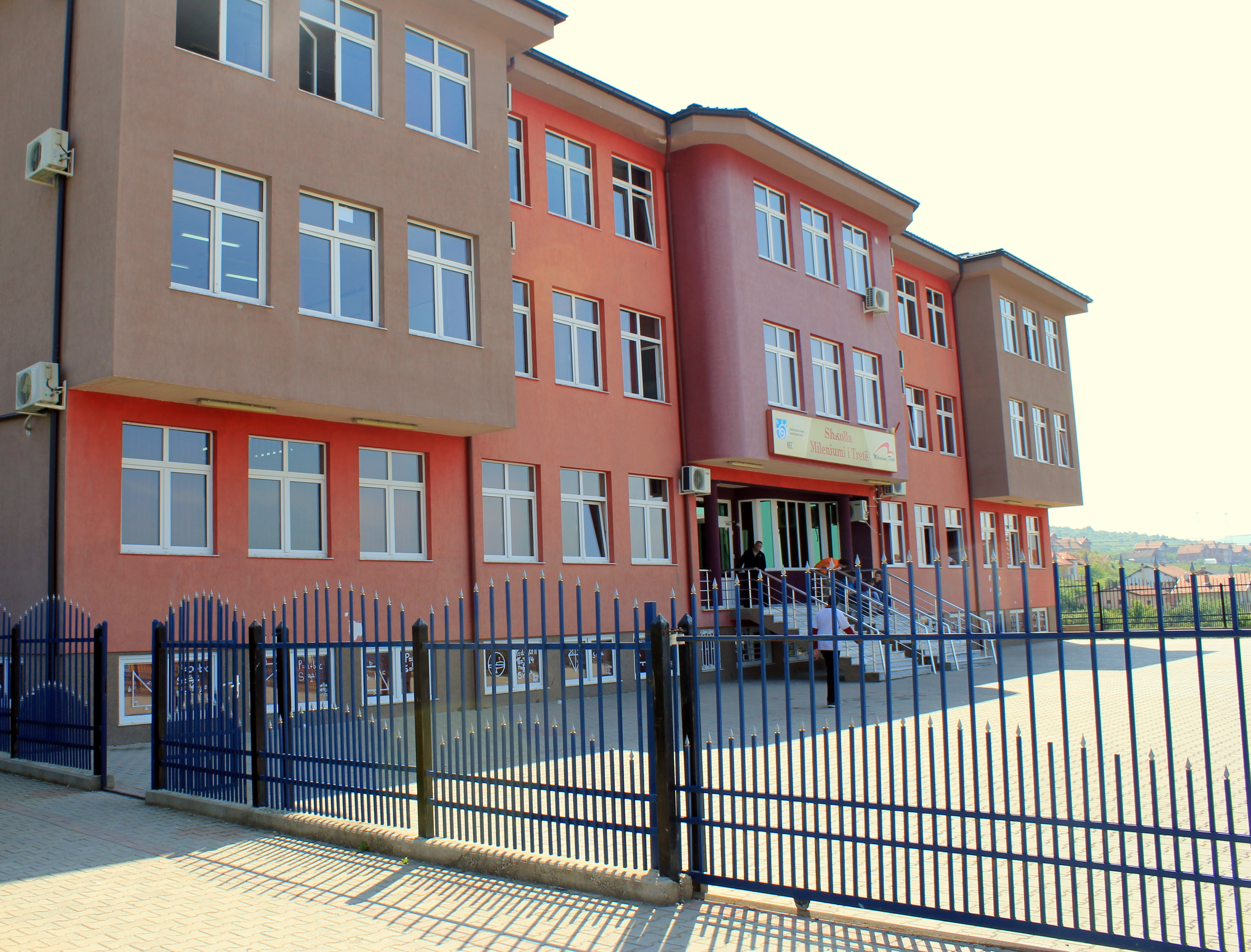 Random